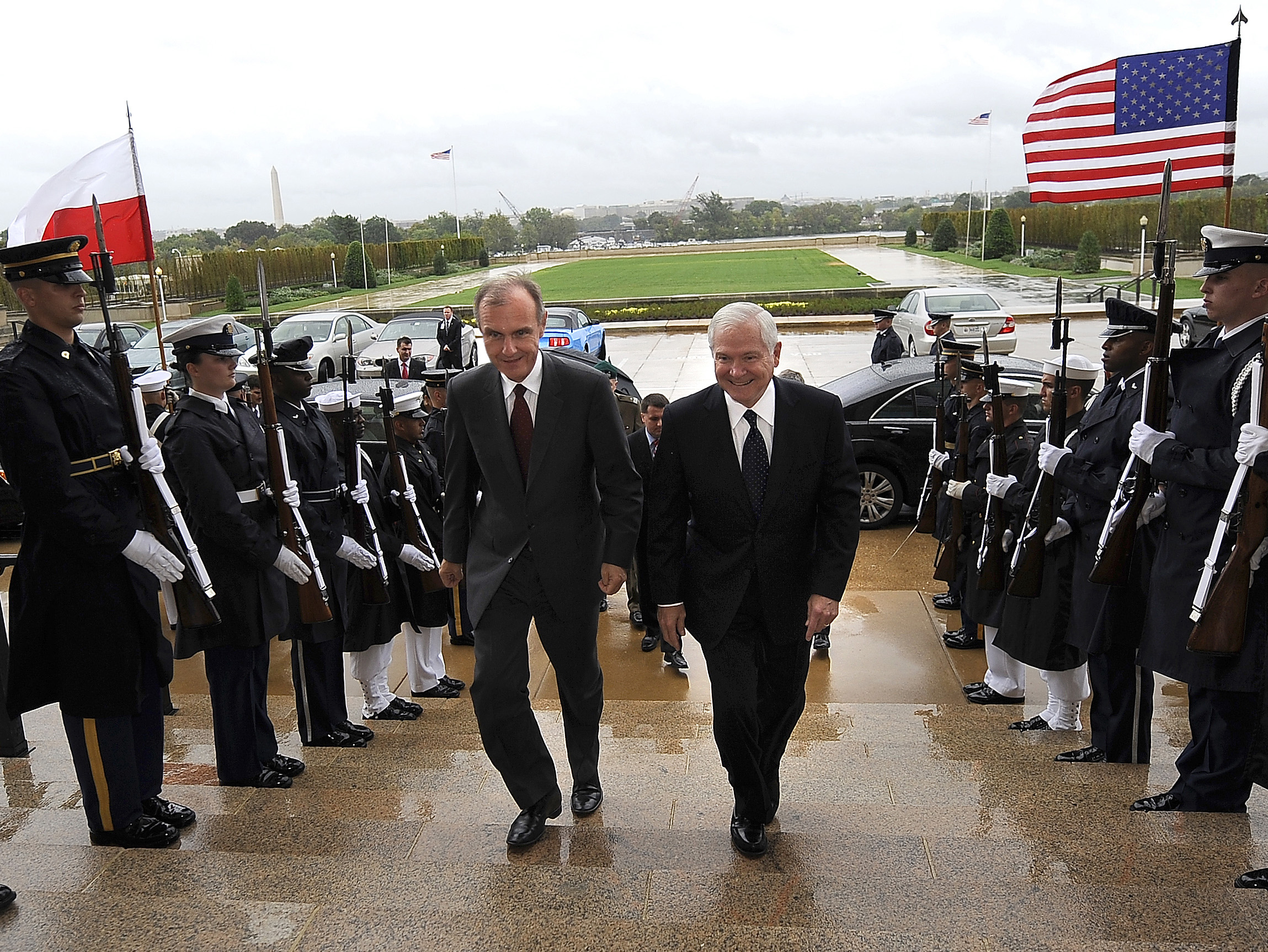 Secretary of Defense Robert M. Gates escorts Polish Minister of Defense Bogdan Klich through an honor cordon and into the Pentagon on Sept. 30, 2010.